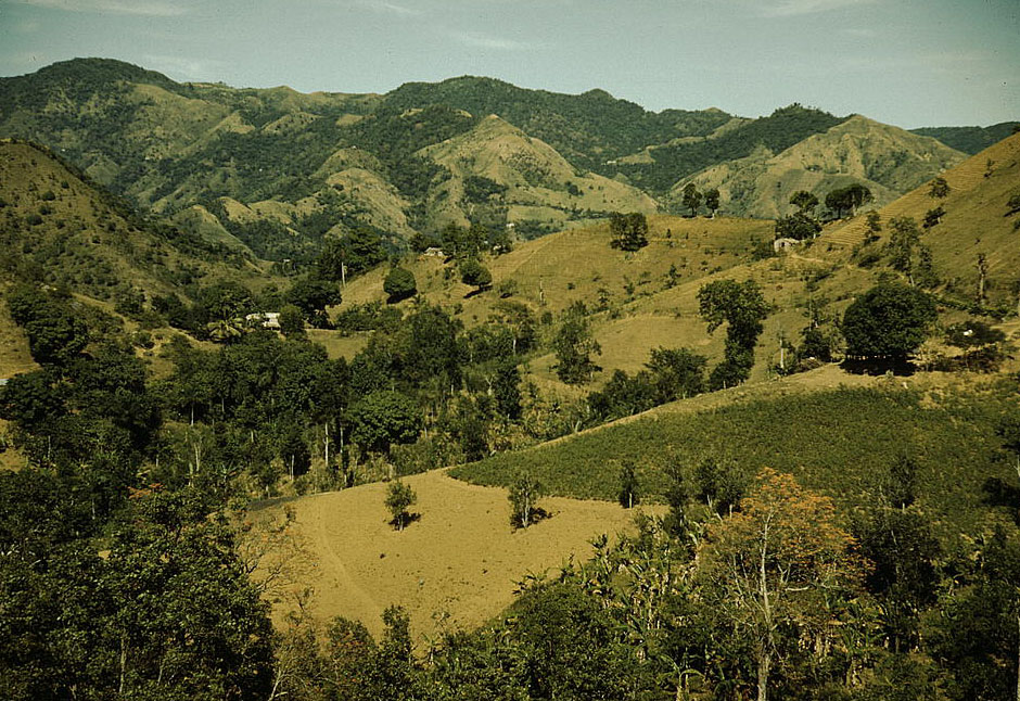 Vicinity of Corozal, Puerto Rico. Farm Security Administration - Office of War Information Collection 11671-25. Transfer from U.S. Office of War Information, 1944.